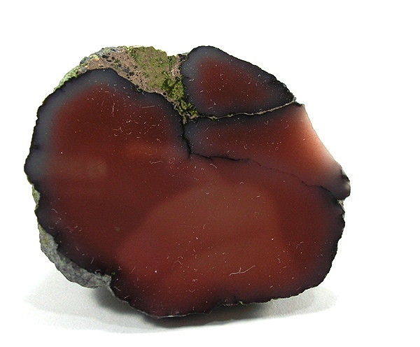 Copper, Datolite Locality: Knowlton Mine, Mass City, Ontonagon County, Michigan, USA (Locality at ) Size: miniature, 4.4 x 3.7 x 1.5 cm Datolite included by copper The datolites from Michigan’s copper country generally weather out of the amygdaloidal basalts. Since they are closely associated with the copper deposits they are often invested with enough copper to give them a beautiful terra-cotta color, like this one. But in this consistent color and depth of hue, it is rare. A fine miniature. Ex. Martin Zinn Collection.